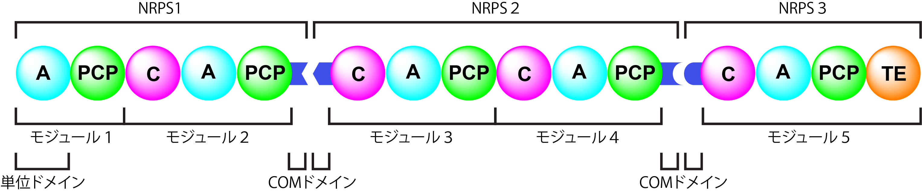 An example of the NRPS basic architecture.